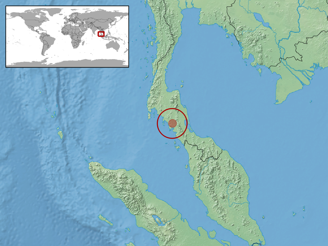 geographic distribution of Boiga saengsomi (Native: Thailand)